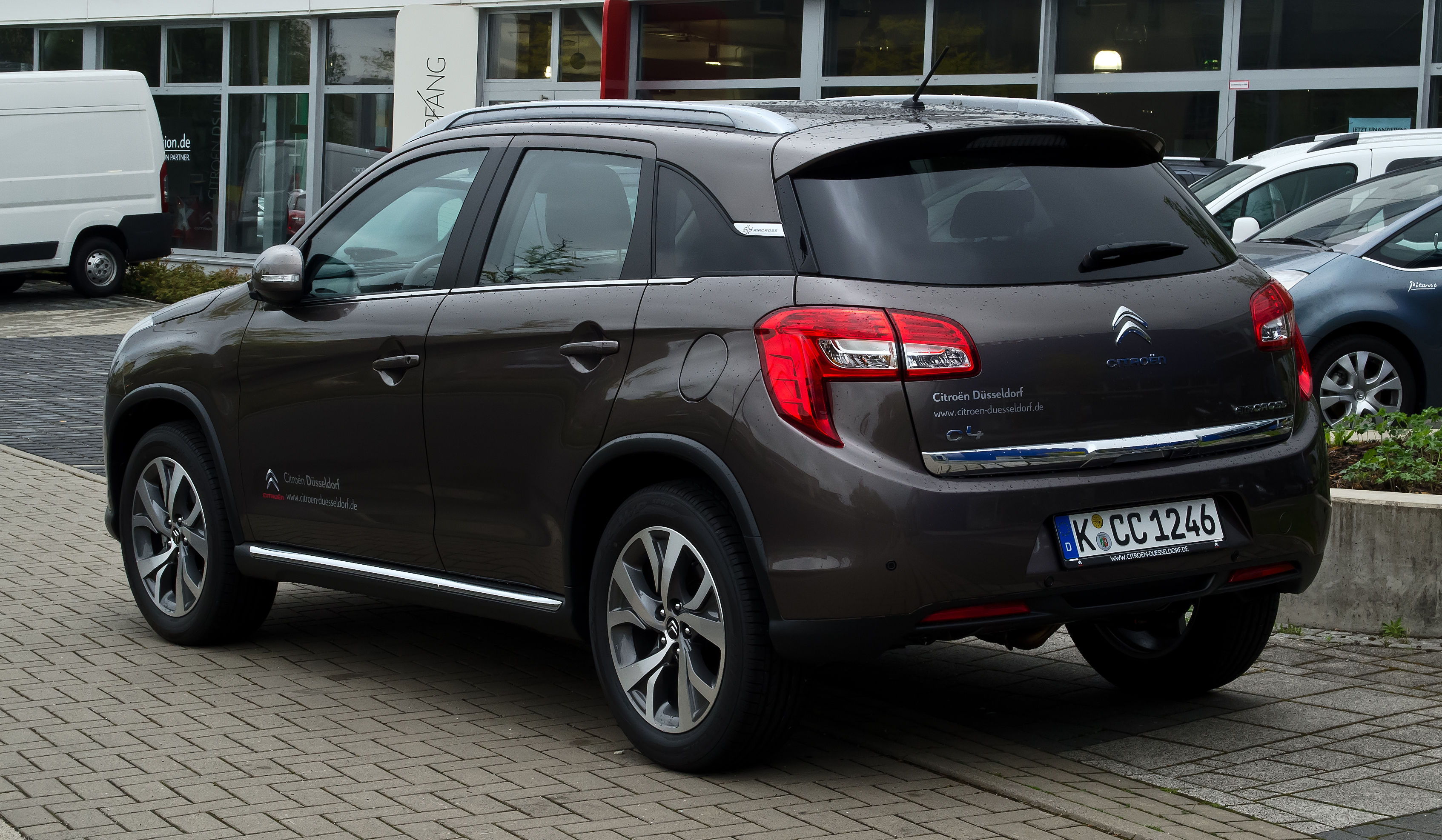 Citroën C4 Aircross HDi 150 Stop & Start Exclusive